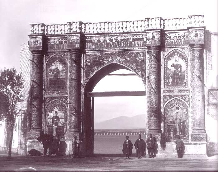 Meydan-e Mashq in Tehran, Iran